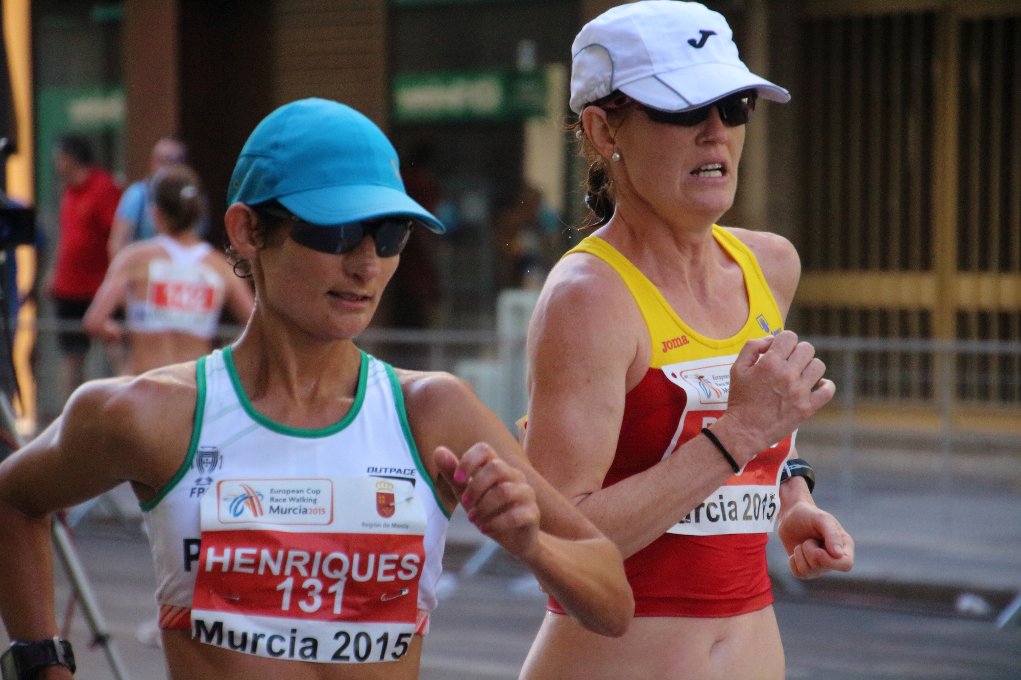 Maria Jose Poves (ESP) and Inês Henriques (POR) in the European Cup Race Walking 2015 (Murcia, Spain).